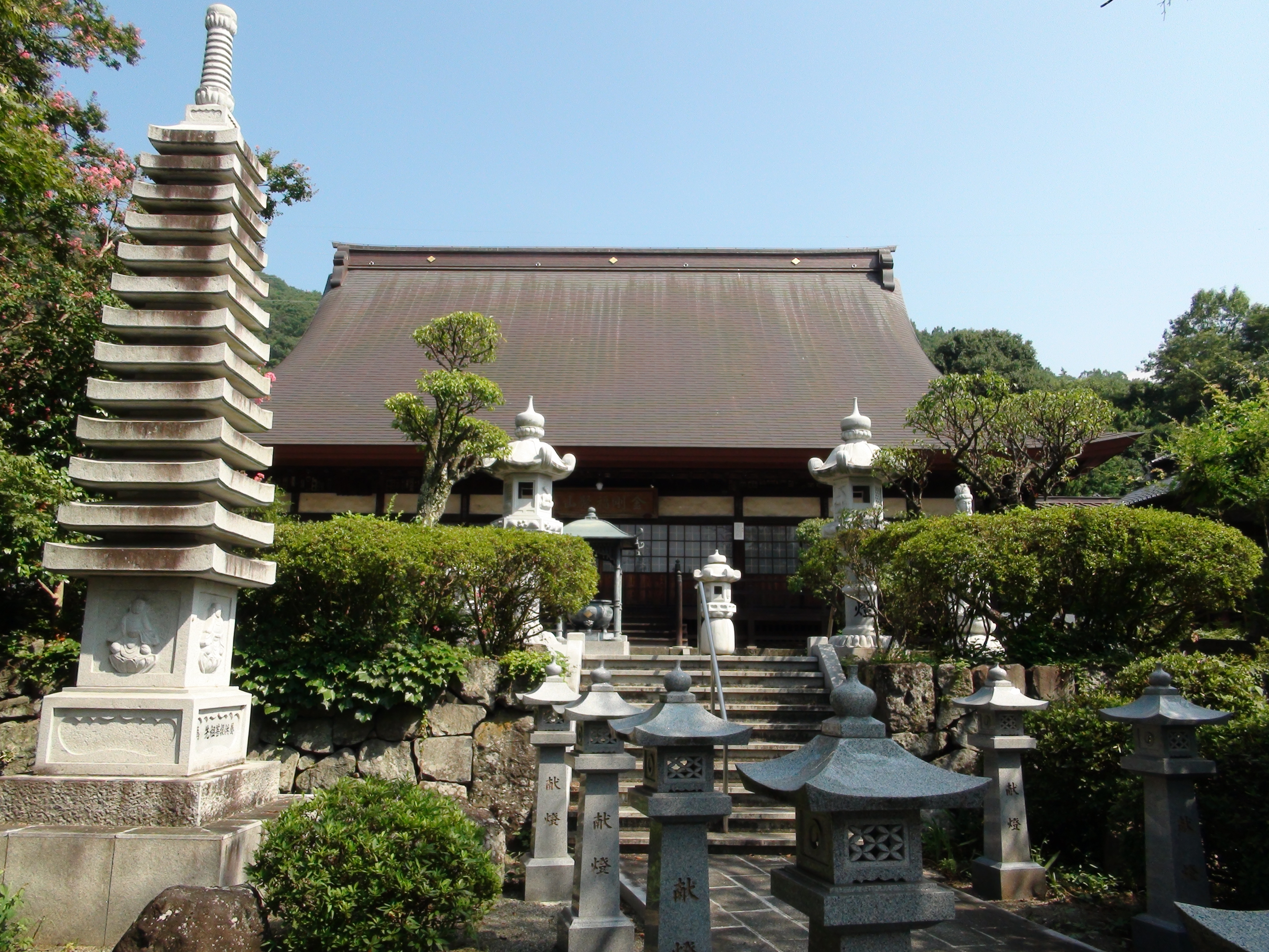 Hosenji-Temple main hall Kofu City